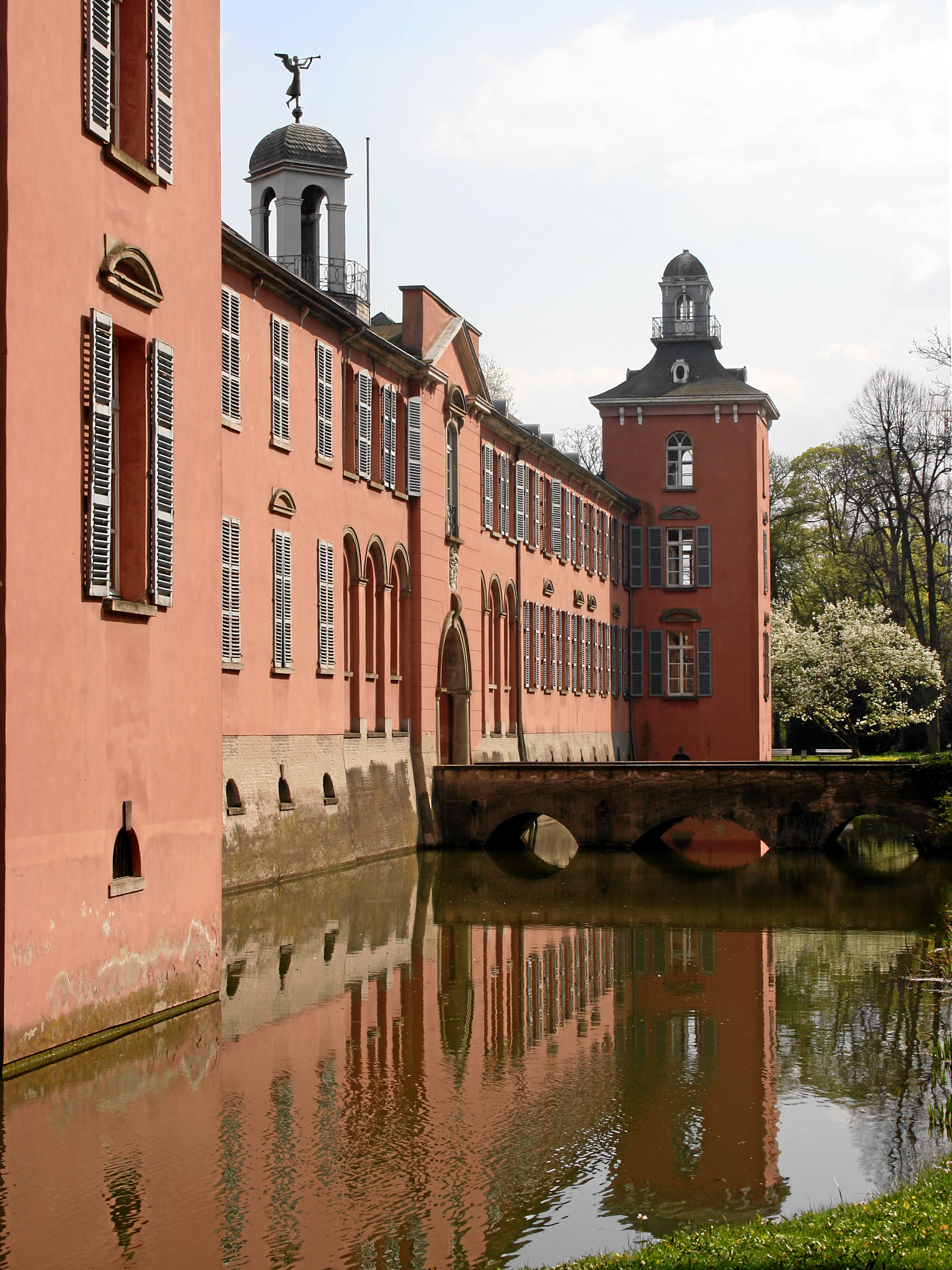 Düsseldorf, Germany. Kalkum catle, view from North-West.